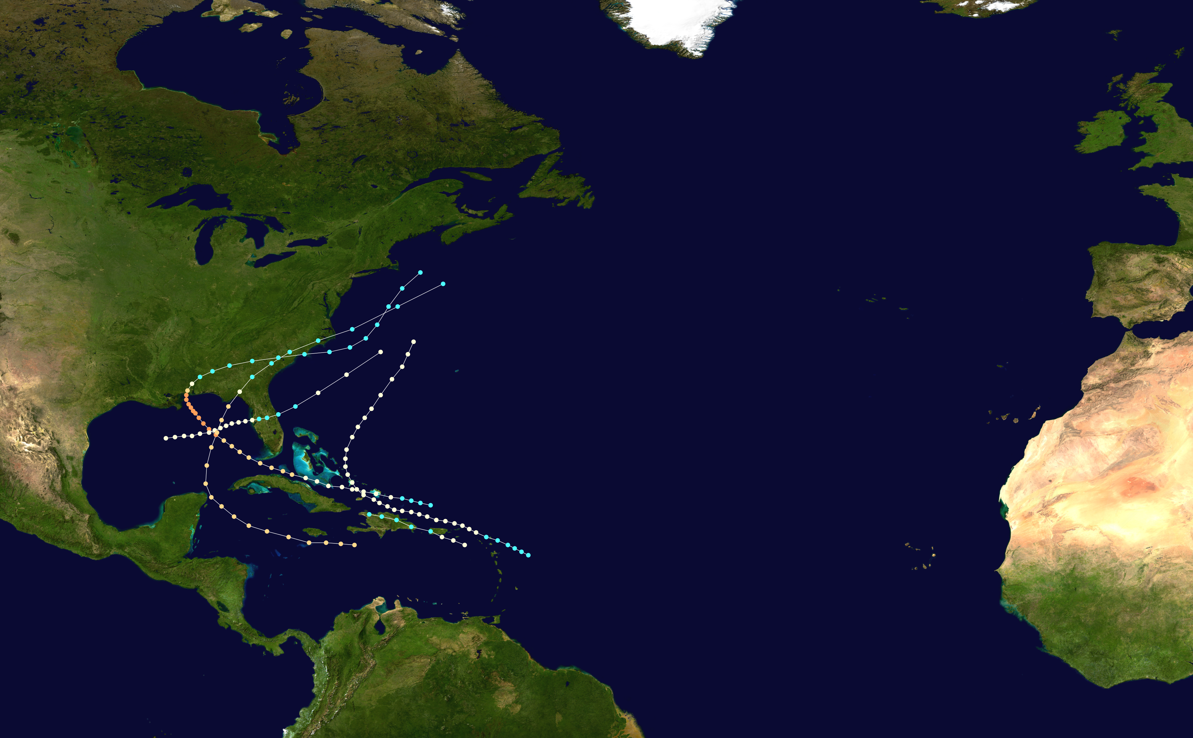 This map shows the tracks of all tropical cyclones in the 1852 Atlantic hurricane season. The points show the location of each storm at 6-hour intervals. The colour represents the storm's maximum sustained wind speeds as classified in the Saffir-Simpson Hurricane Scale (see below), and the shape of the data points represent the type of the storm. Saffir–Simpson scale Tropical depression≤38 mph≤62 km/h Category 3111–129 mph178–208 km/h Tropical storm39–73 mph63–118 km/h Category 4130–156 mph209–251 km/h Category 174–95 mph119–153 km/h Category 5≥157 mph≥252 km/h Category 296–110 mph154–177 km/h Unknown Storm type Tropical cyclone Subtropical cyclone Extratropical cyclone / Remnant low / Tropical disturbance